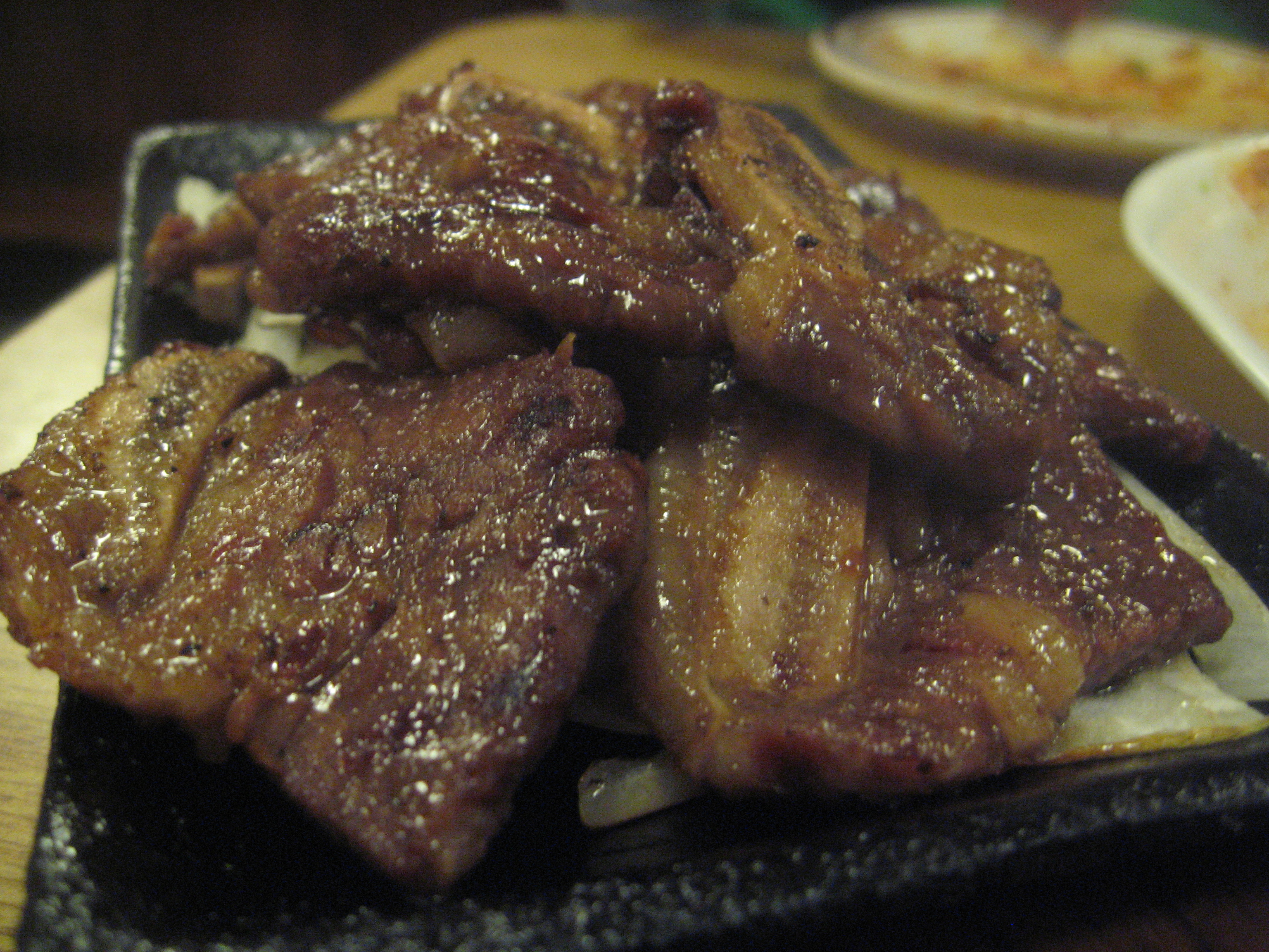 Marinated BBQ beef short ribs -- when they're cut laterally like this, they're known as LA Galbi, in reference to its origins in Los Angeles' Koreatown. @ Du Kuh Bee